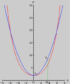 Graphics output Mathematica 4.1 L. Fransen (Livinus)